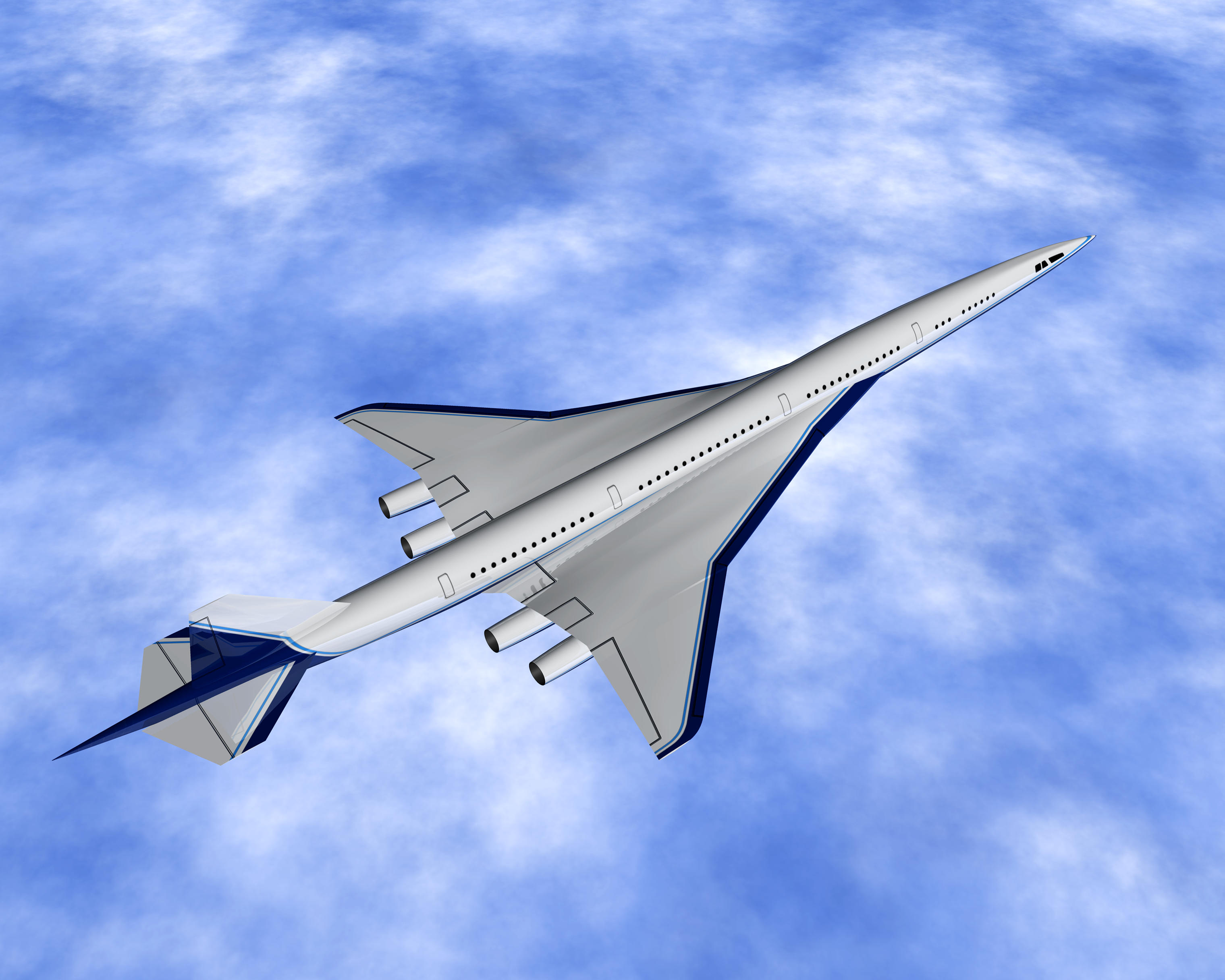 NASA study for a next-generation supersonic passenger jet that would fly 300 passengers at more than twice the speed of sound. Technology to make this possible is being developed as part of NASA's High-Speed Research program, supported by a team of major U.S. aerospace companies in a multi-year research program begun in 1990.